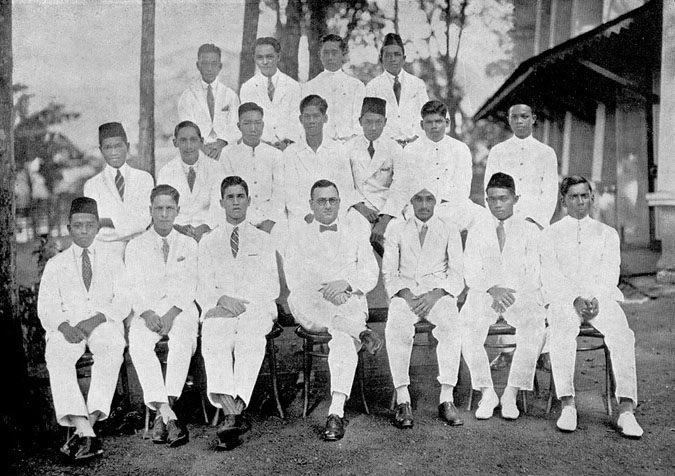 Prefect Lall Singh seated third from right